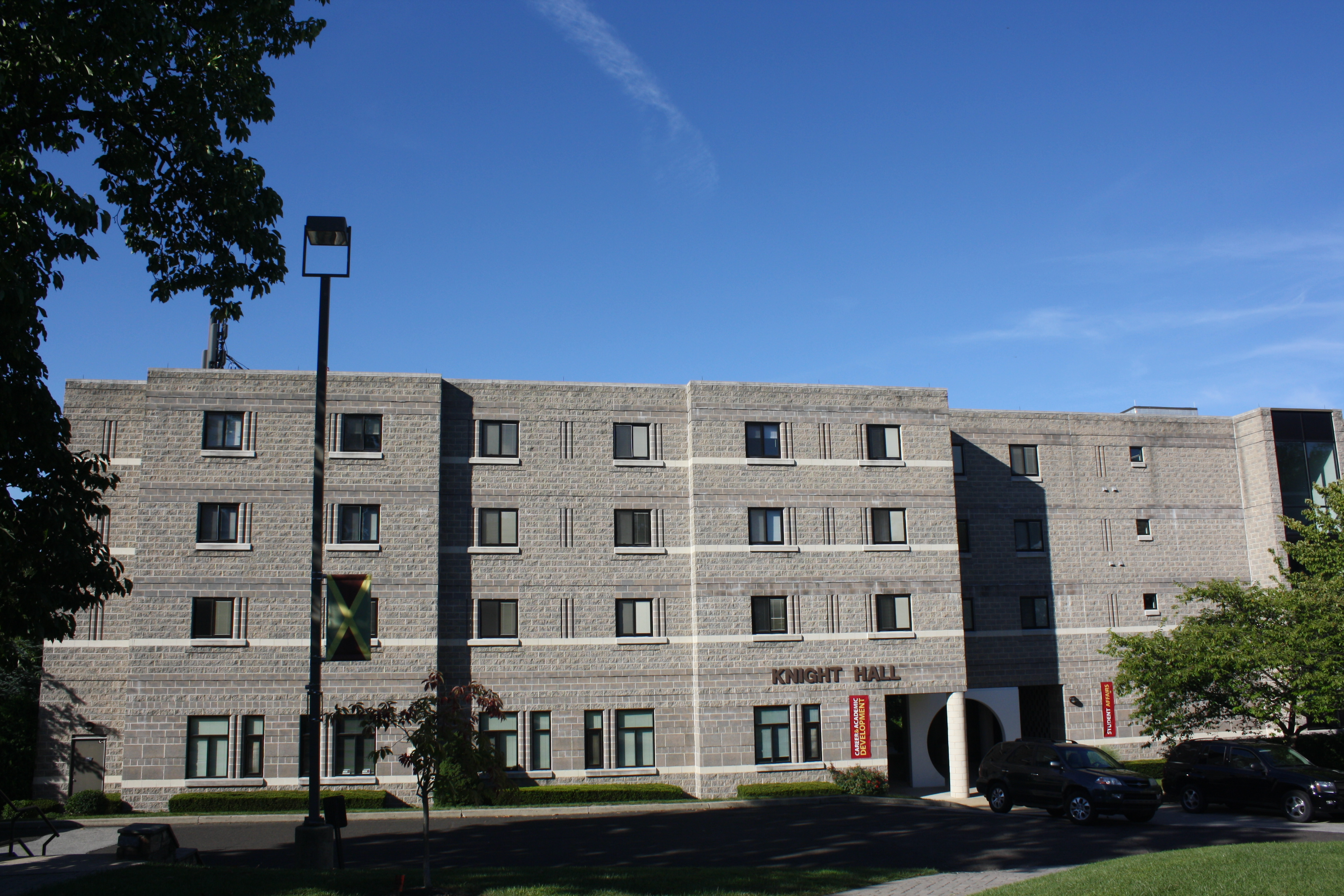 Knight Hall, Arcadia University. Southern side.